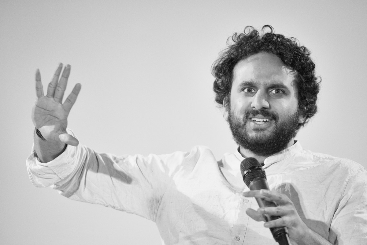 British stand-up comedian, actor, and radio presenter, Nish Kumar.